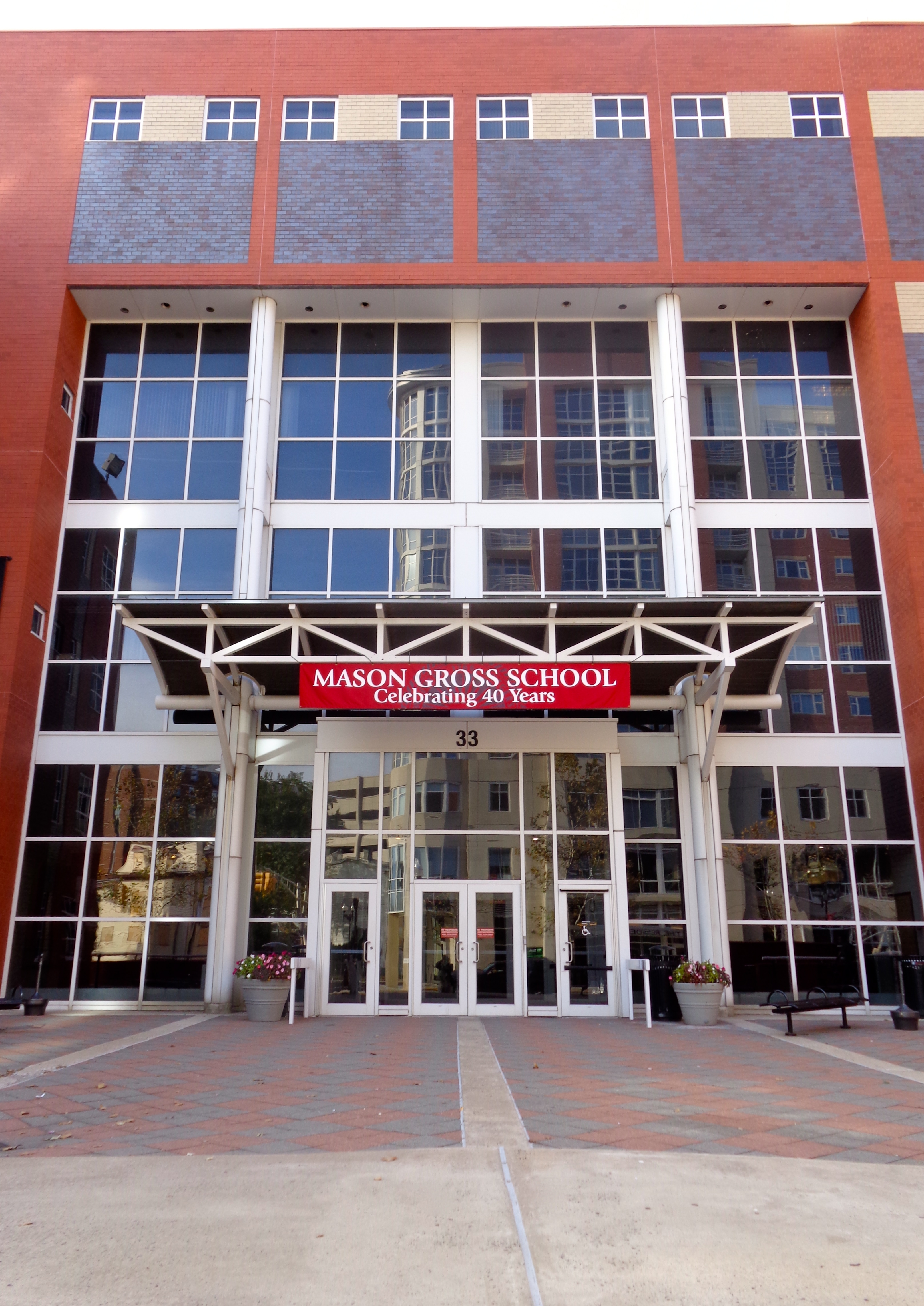 Mason Gross School Rutgers New Brunswick